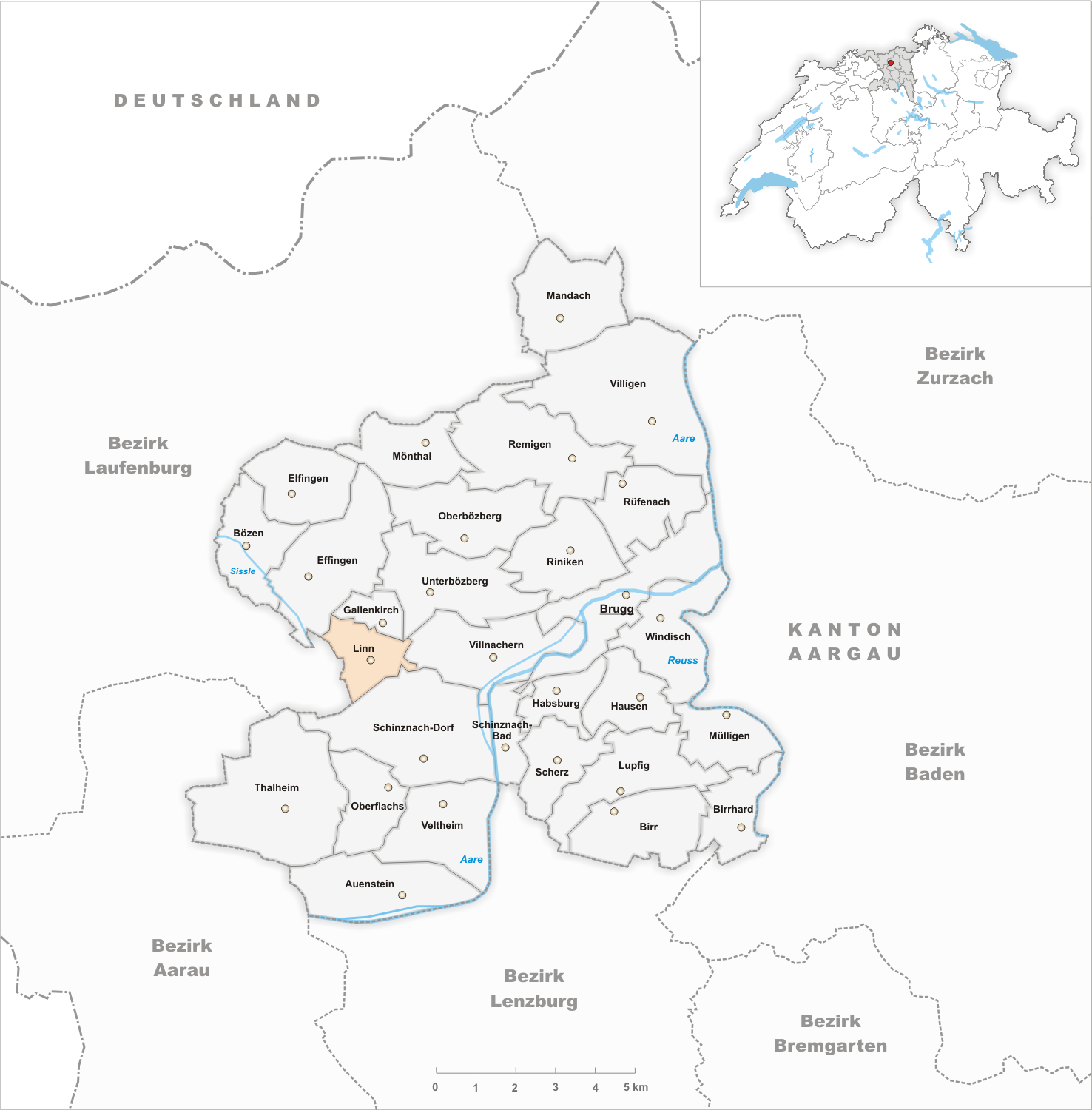 Municipality Linn